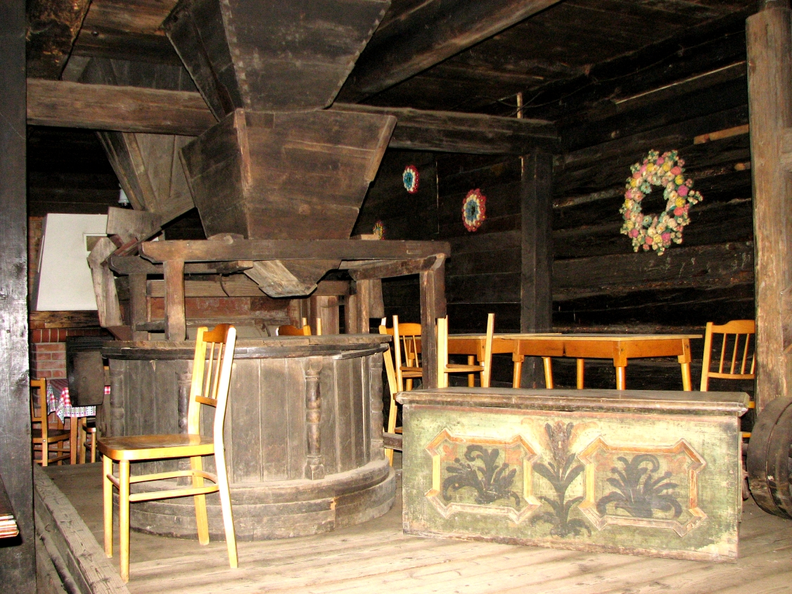 Watermill, Pszczyna, Poland